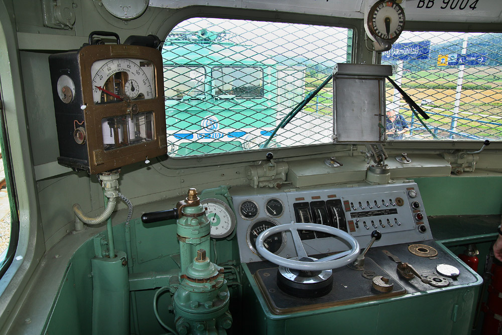 Driver's cab on the BB 9004 locomotive. That locomotive set a new world record for rail vehicles on May 29th, 1955.